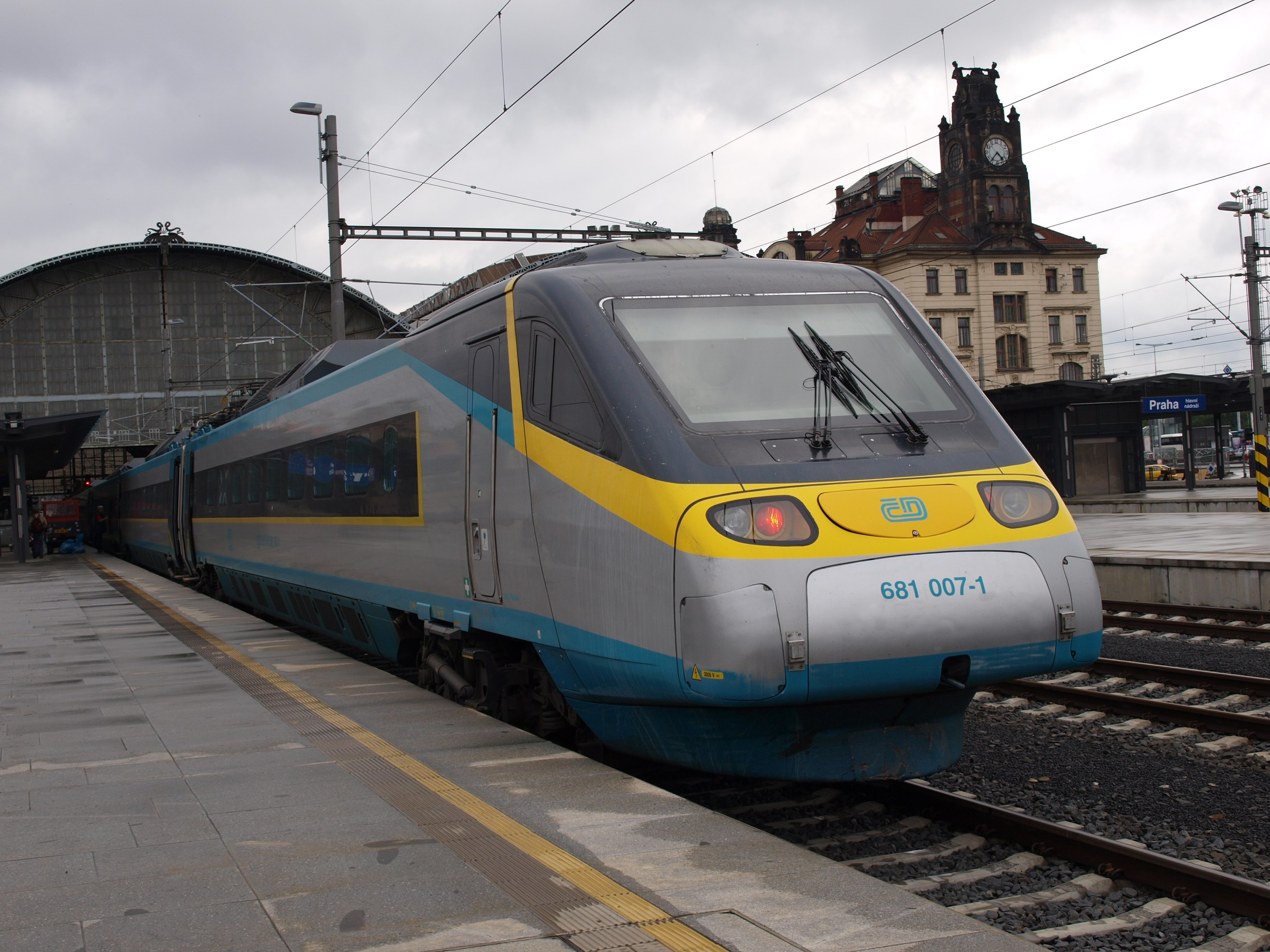 Electric multiple unit 680 Pendolio at Prague main station